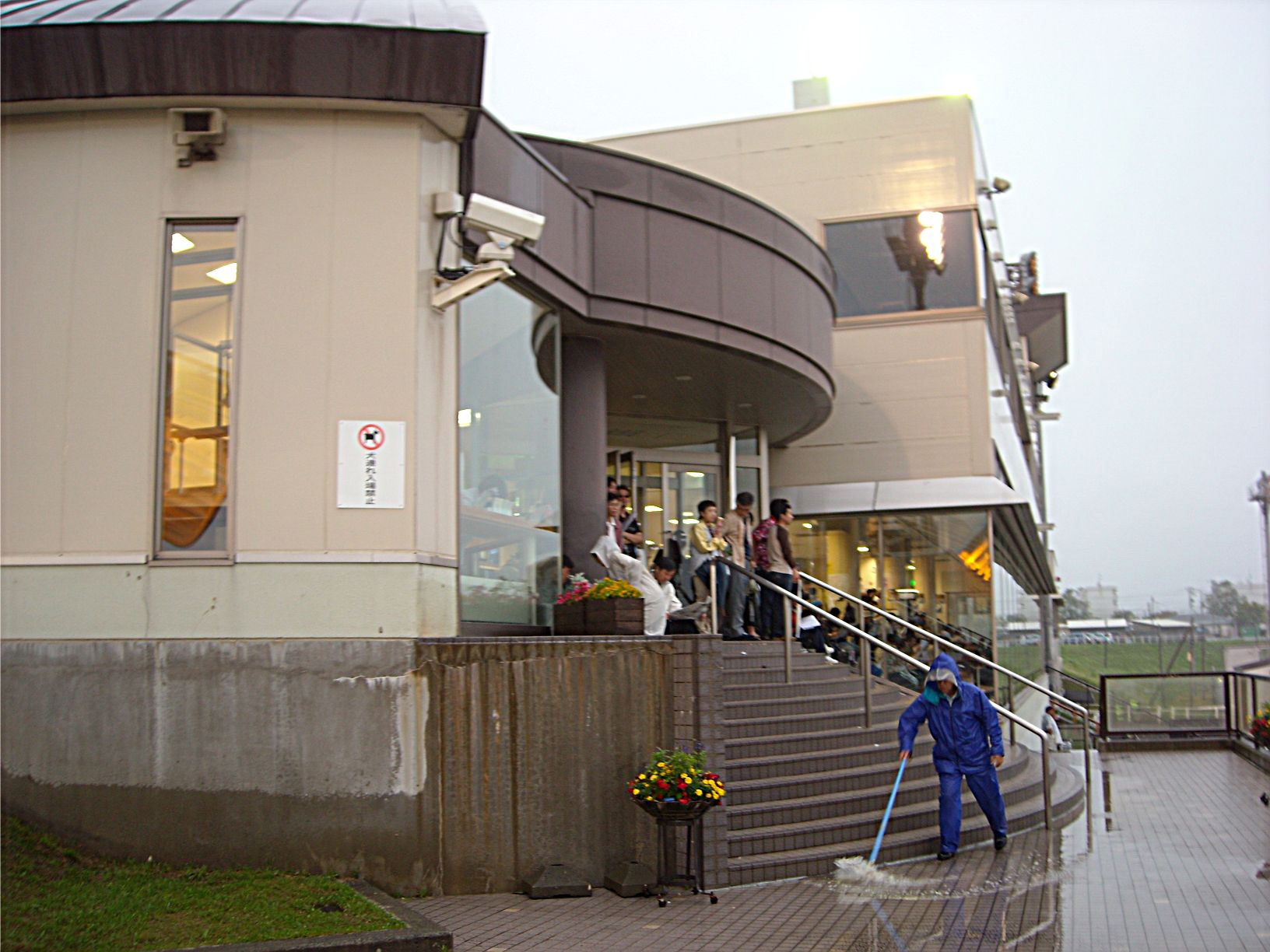 Main stand(Mombetsu Racecourse)